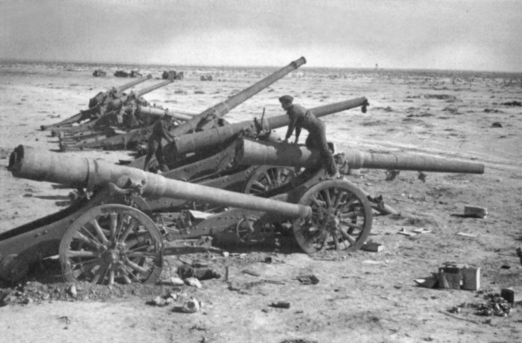 Italian battery of 149/35 and 120/25 guns captured by the British during the 1940-1941 winter offensive in Cyrenaica